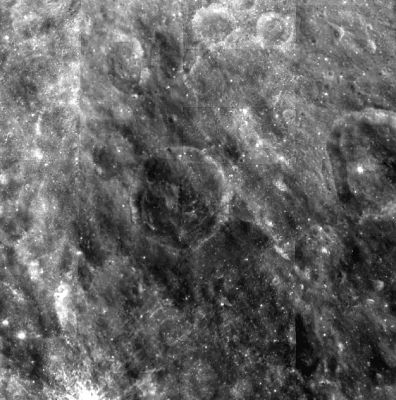 Butlerov crater